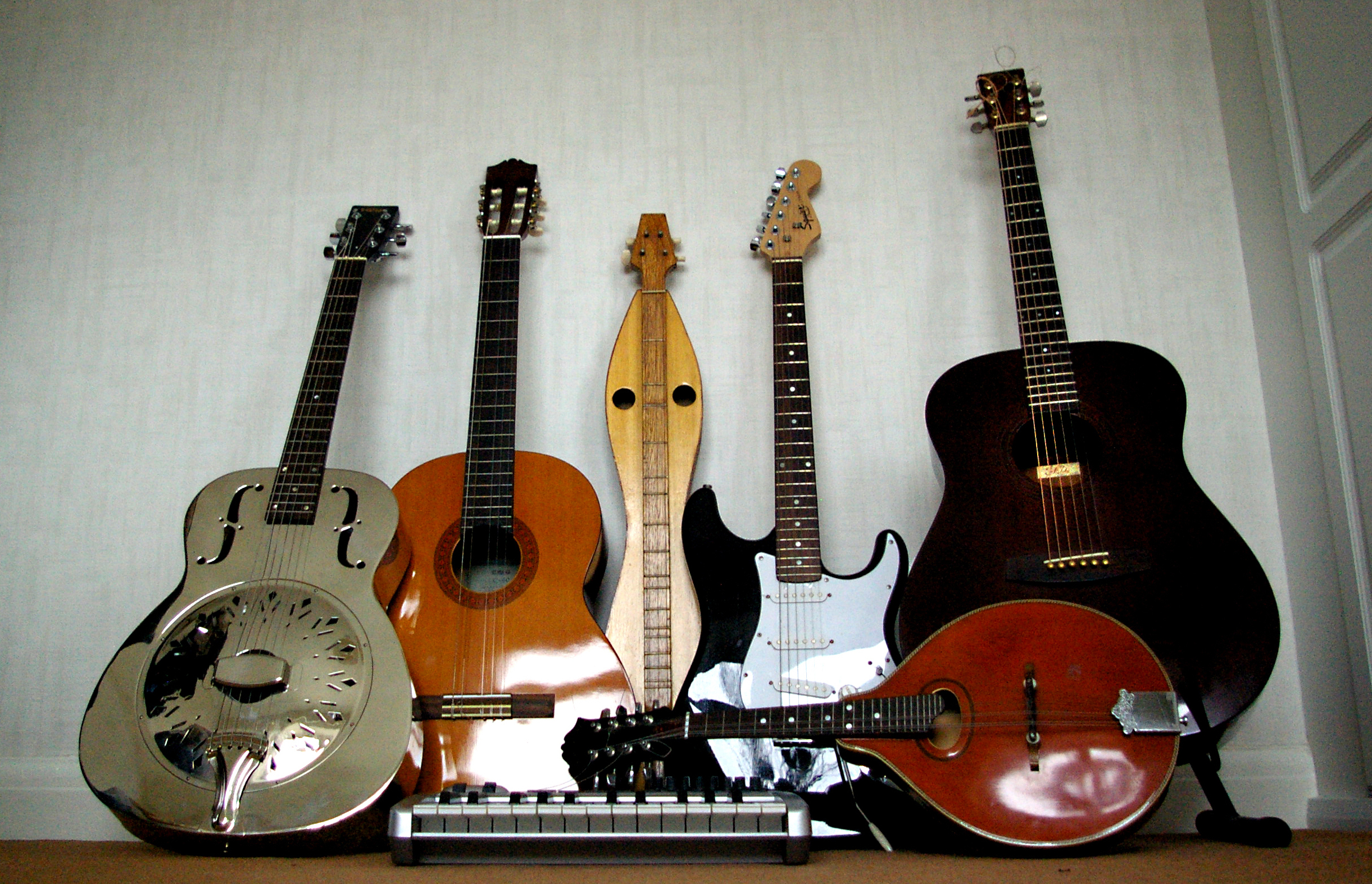 My musical armoury. rear: JHS Vintage® AMG1 Acoustic Resonator Guitar Yamaha C-40 Classical Guitar Appalachian dulcimer Squier Stratocaster ? Fylde Guitar ? front: M-Audio Oxygen 8 25-Key USB MIDI Keyboard Controller Hondo Mandolin Tags: music musical musical_instrument guitar resonator mandolin dulcimer keybooard guitar_collection acoustic electric m-audio midi fylde fylde_guitar hondo steel_guitar bottleneck blues folk string